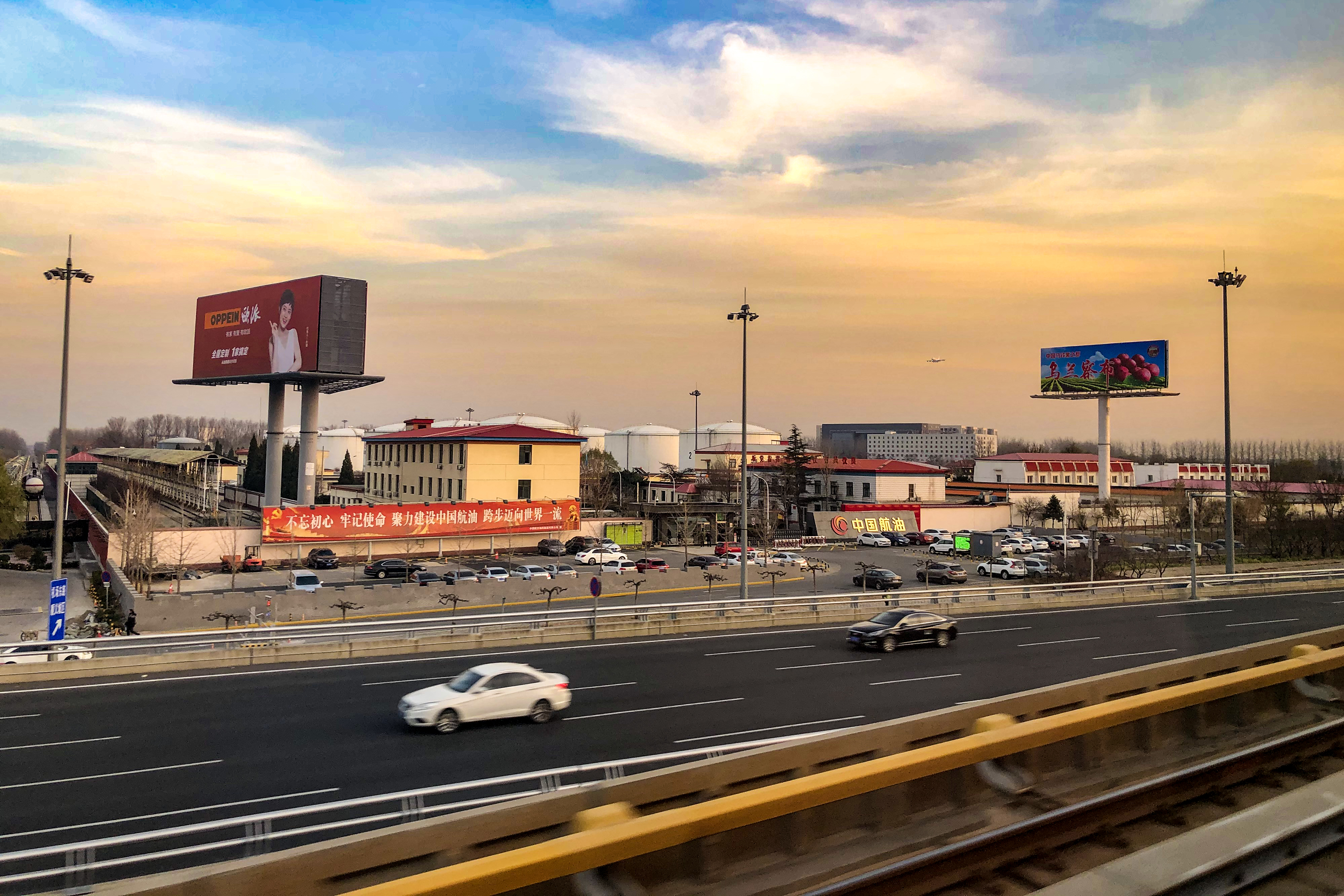 This is the terminus of Zhangxin Spur Line.